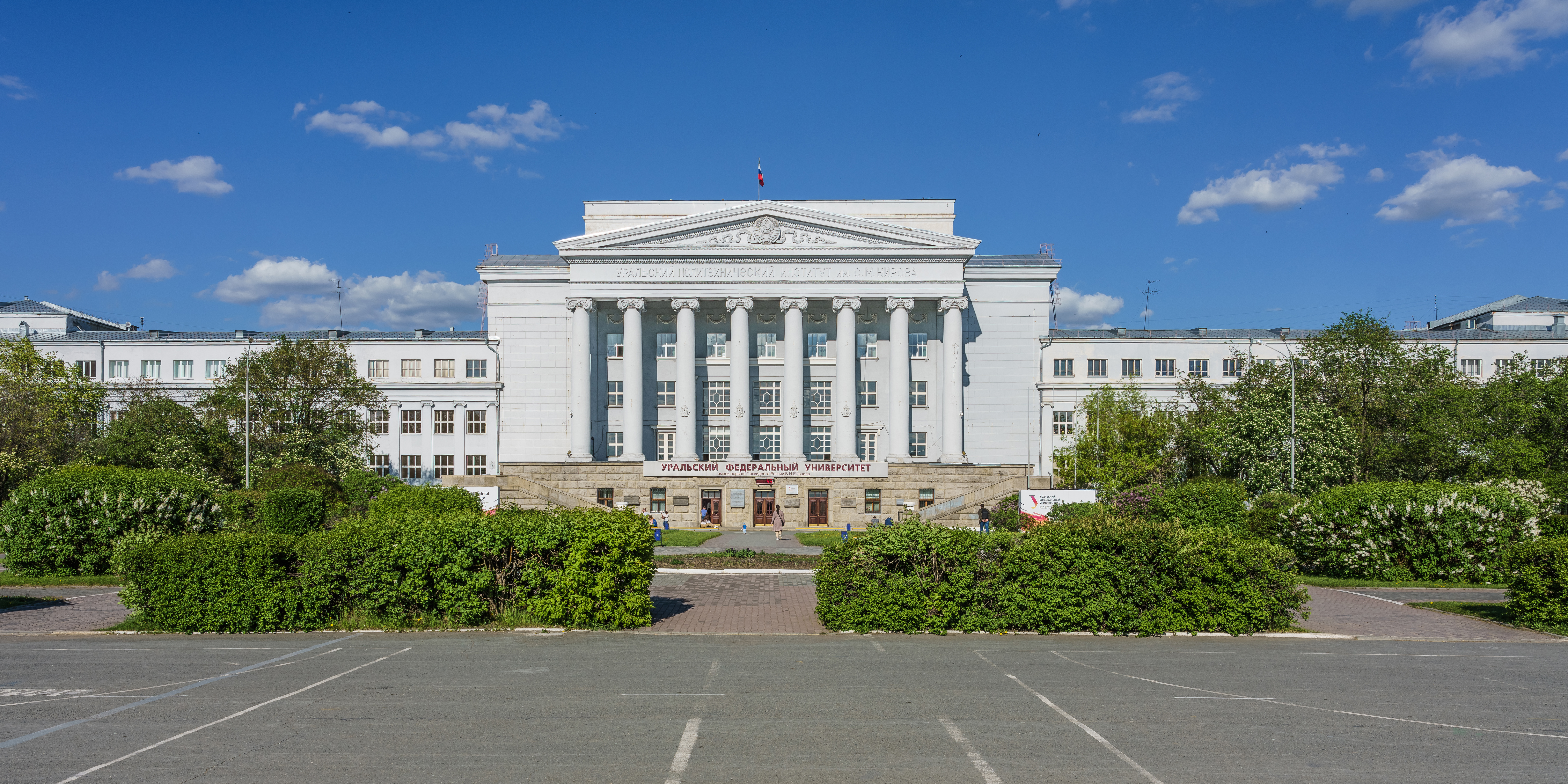 Building of Ural Federal University (Mira Street 19) in Ekaterinburg, Russia